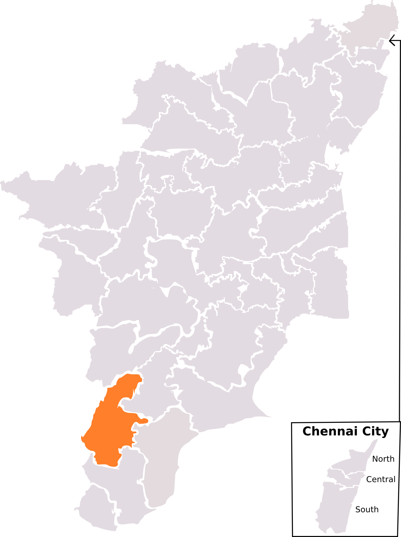 Lok Sabha Election map for Tamil Nadu. Map is drawn using Inkscape and is based on ECI website.